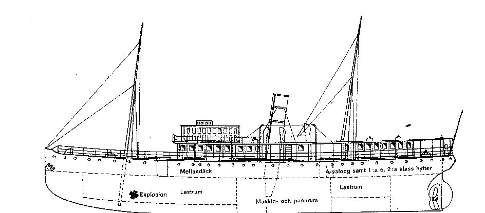 Swedish passenger ship Hansa